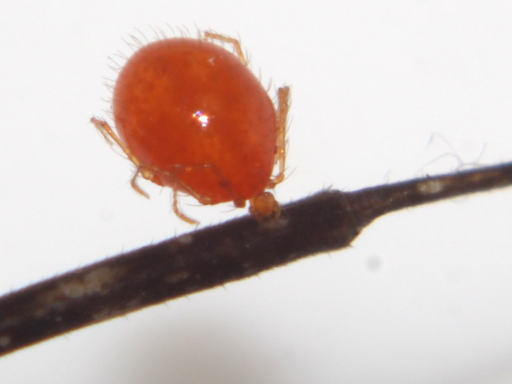 Hexapod, Erythraeidae (probably Callidosomatinae), parasitic larva on the leg of a long legged harvestman. It is suspended in the air by its mouthparts attached to the leg.. Karori, Wellington, New Zealand.